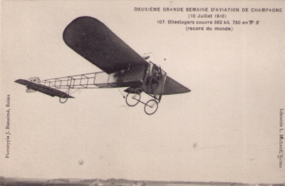 Jan Olieslagers' Blériot XI during the second aviation week of Champagne (Fr), where he set the world distance record at 392,750 km in 3h3'.